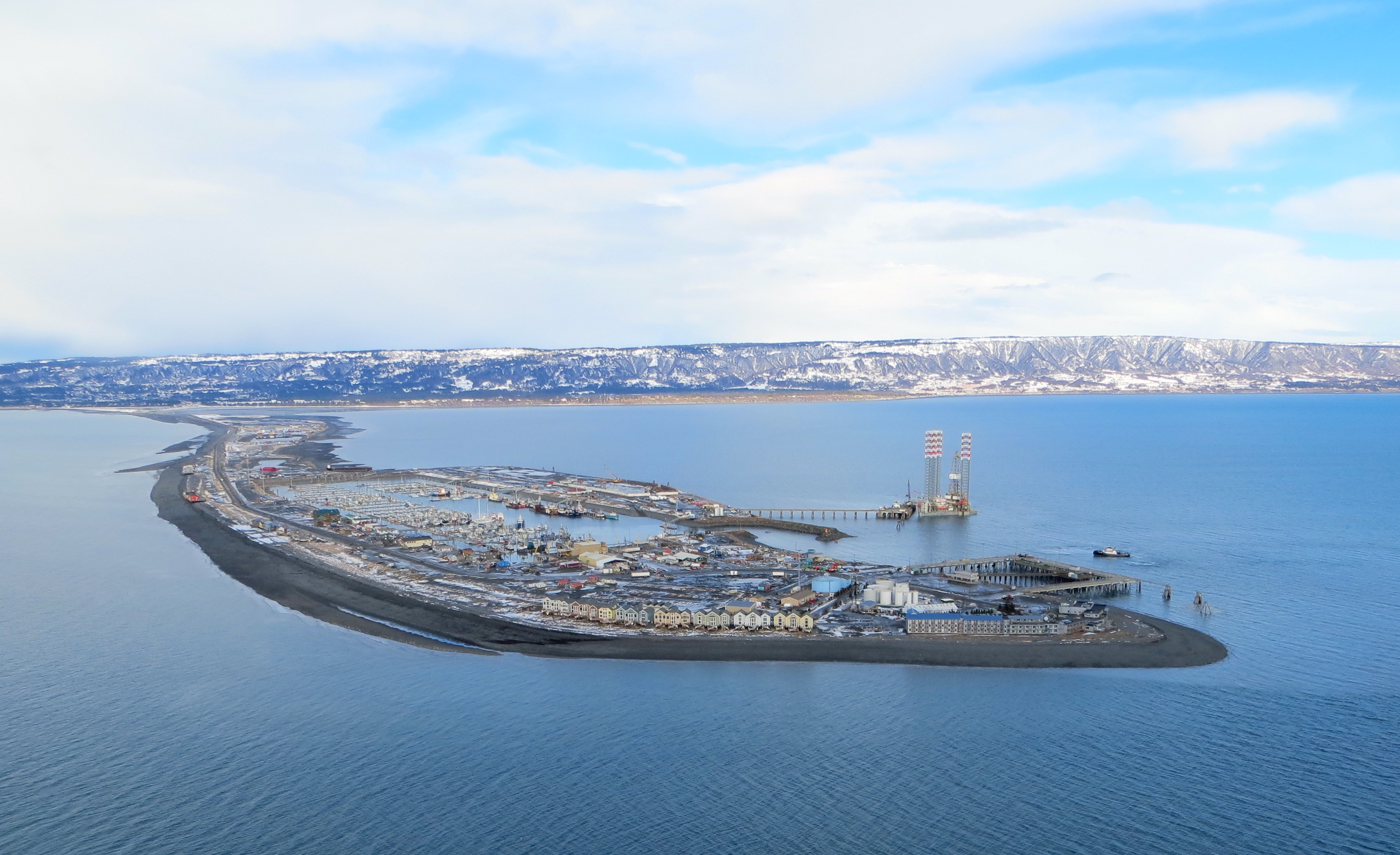 Aerial view of the Homer Spit in Homer, Alaska